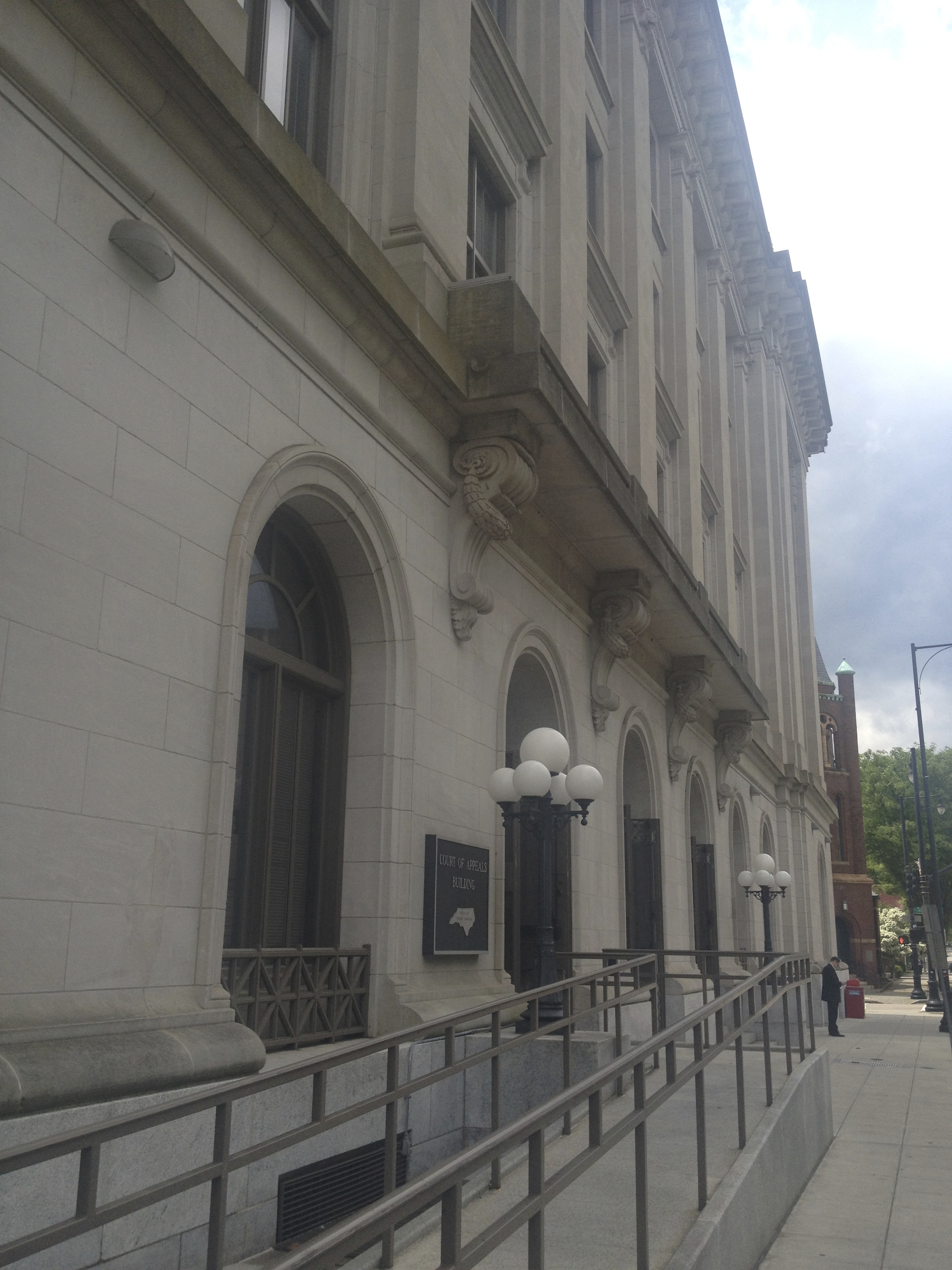 Court of Appeals Building